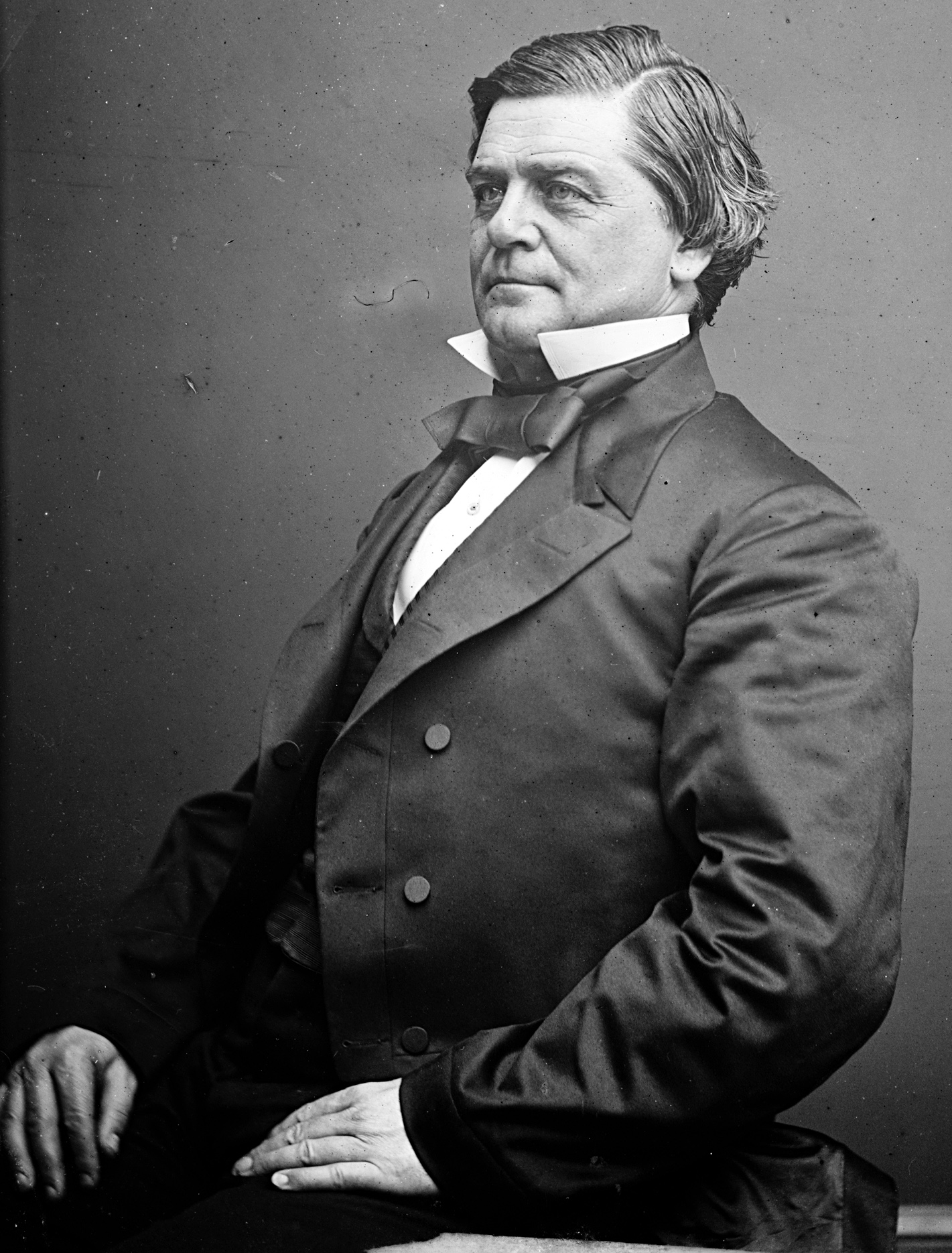 John L. N. Stratton, US Representative from New Jersey